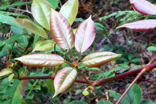 Cissus hypoglauca, Brisbane Water National Park